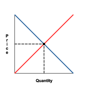 A supply and demand curve. The point at which the red and blue lines cross is the equilibrium price.